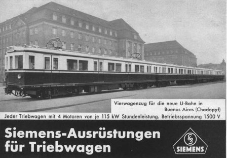 A Siemens advertisement from 1934 showing the Buenos Aires Underground's Siemens-Schuckert Orenstein & Koppel rolling stock outside a factory in Germany.